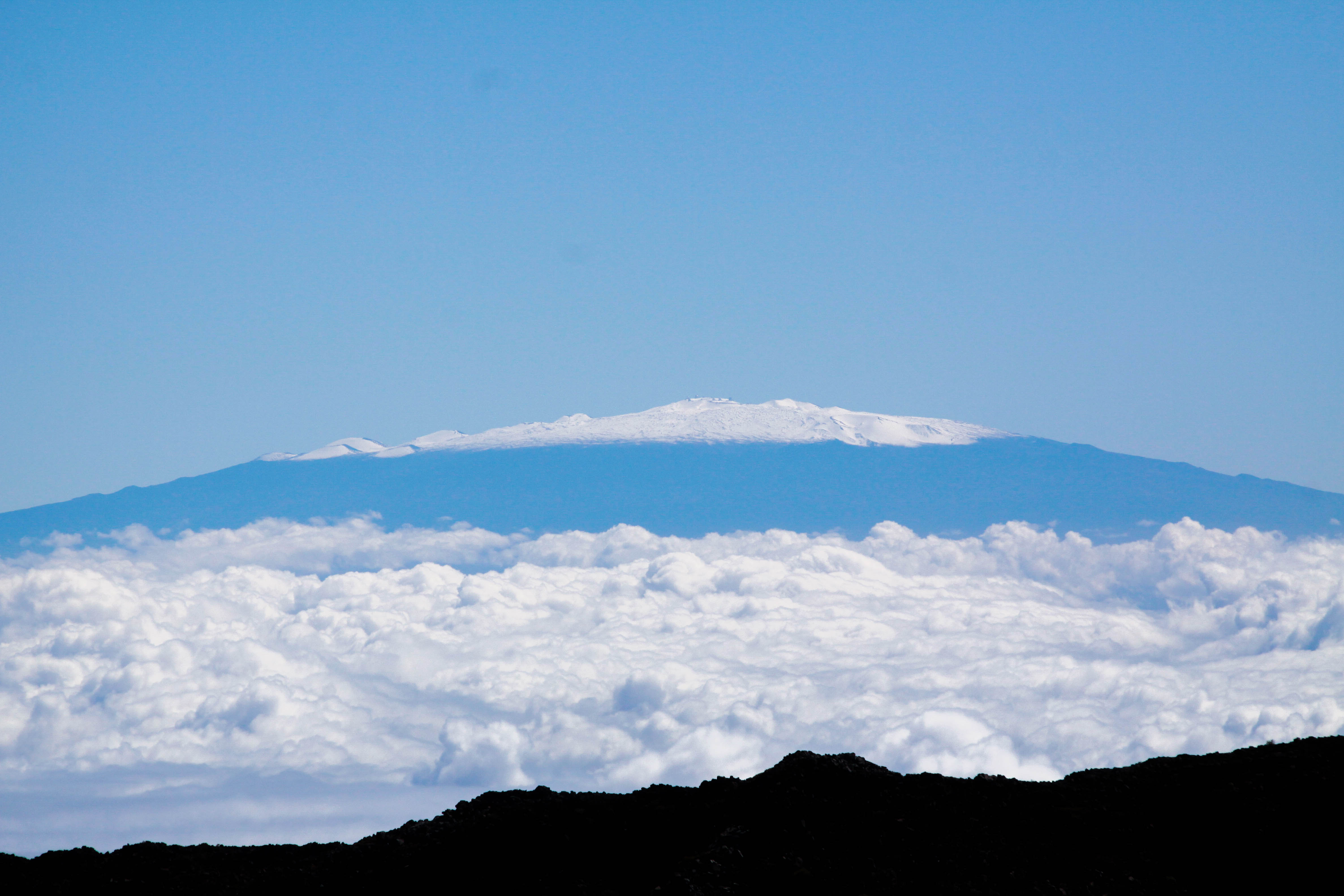 The view of Mauna Kea from the summit of the Haleakala Volcano on the island of Maui